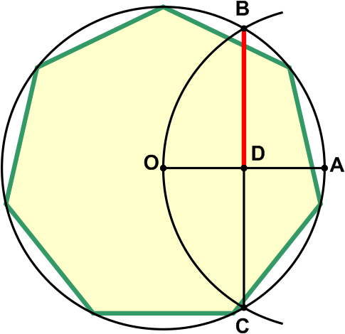 Heptagone approximation